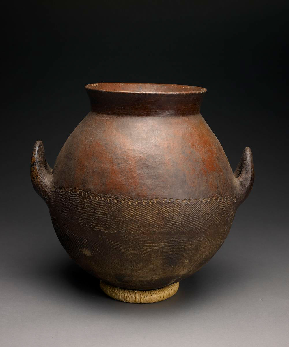 A clay vessel of the Nuna people of Burkina Faso.